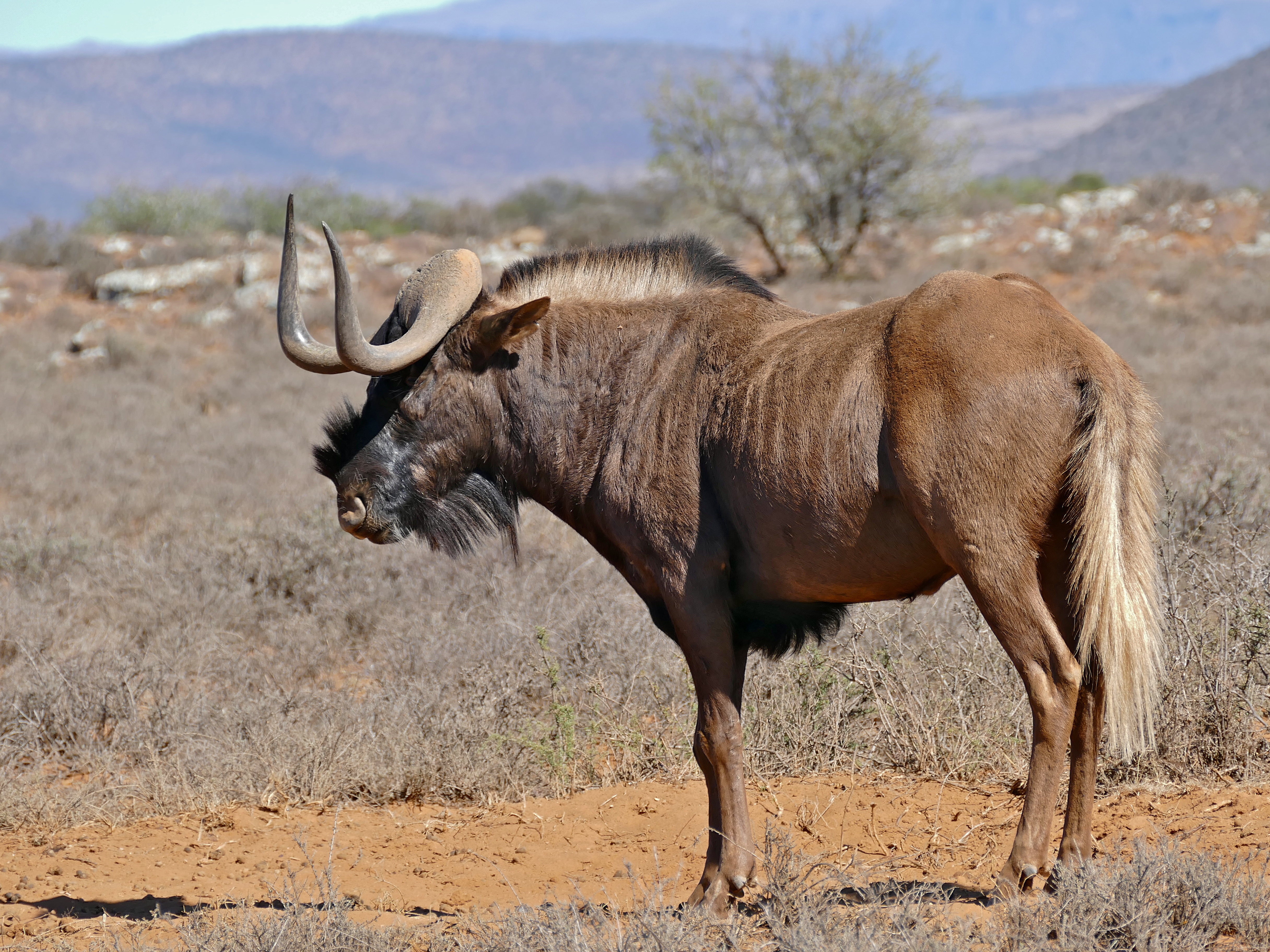 Camdeboo NP, Eastern Cape, SOUTH AFRICA